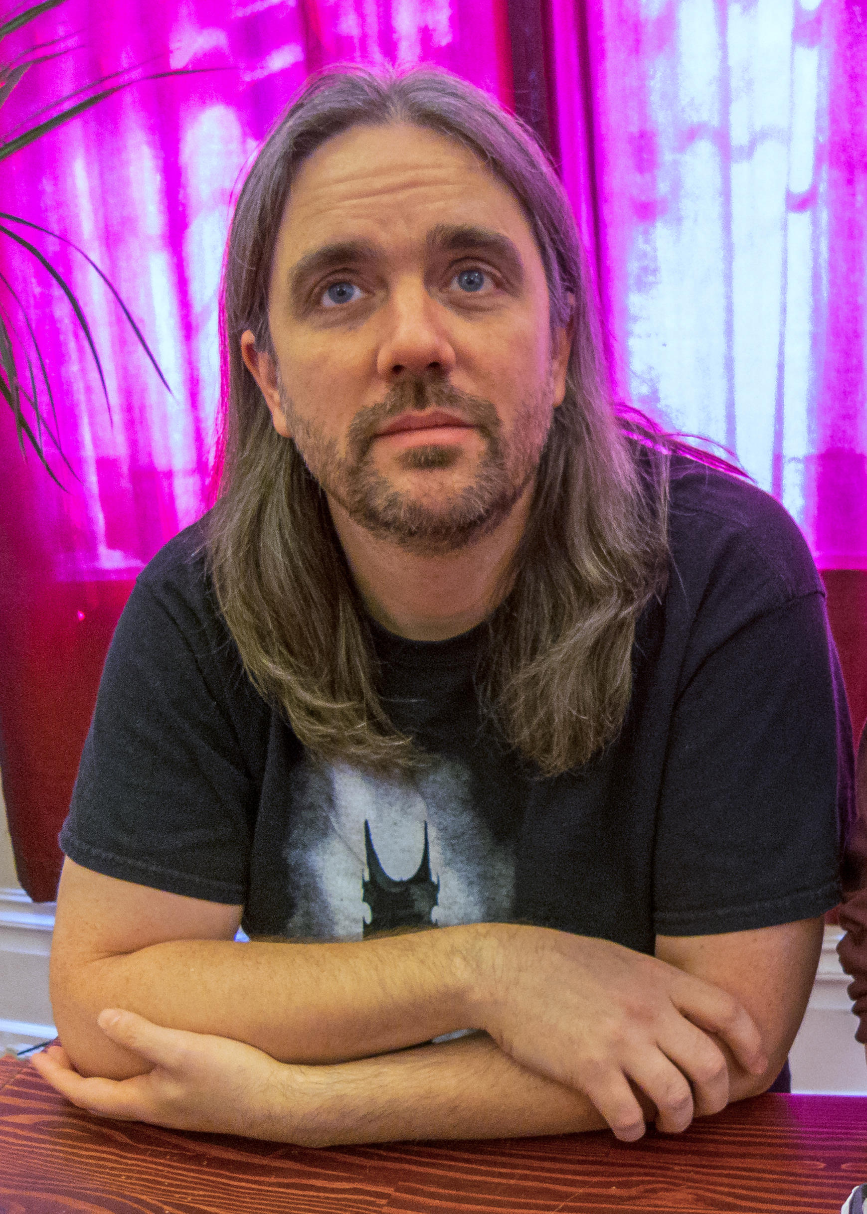 Ty Franck at a book signing in 2014